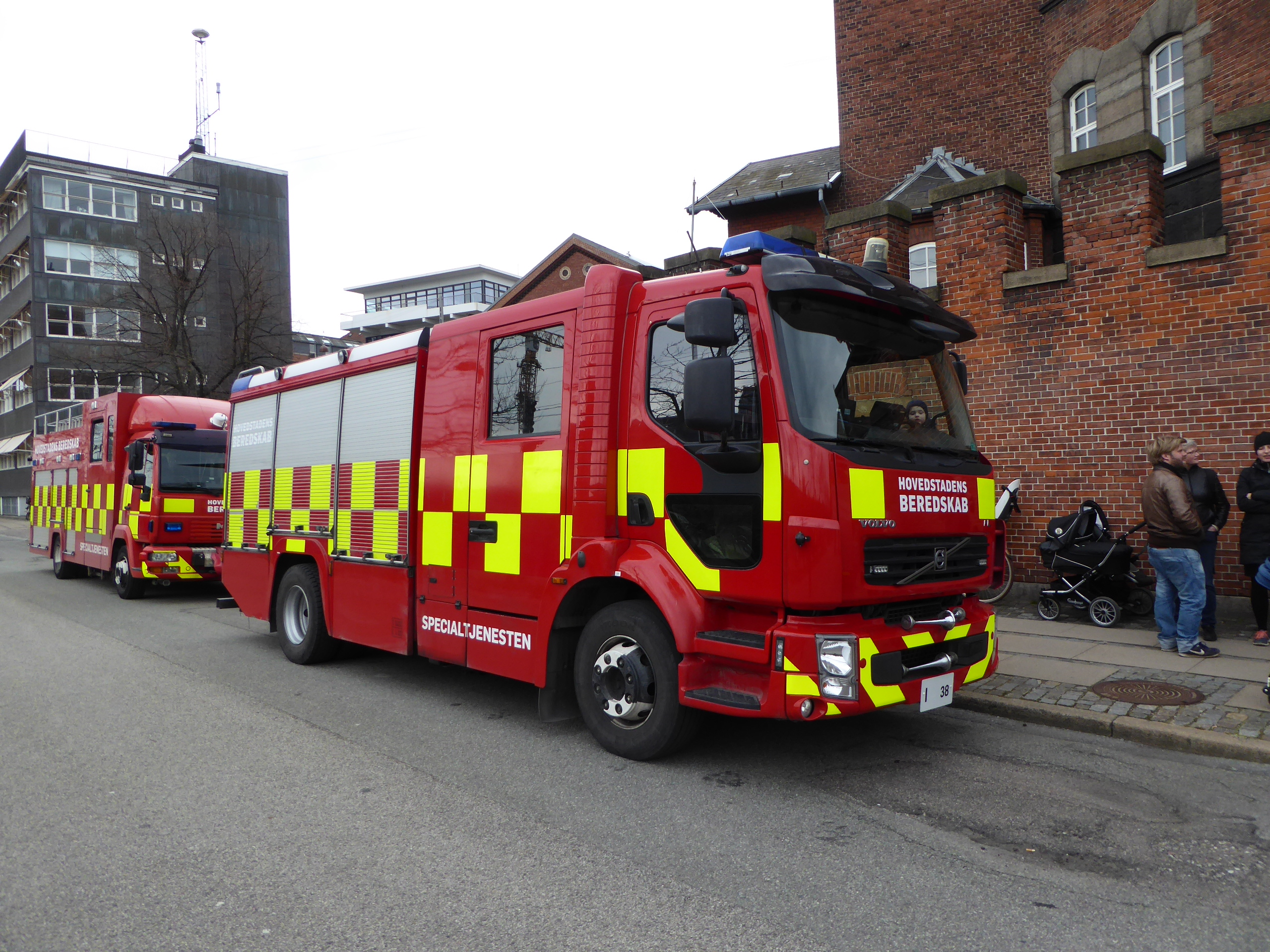 Fire engines at an open house of Østerbro Brandstation in Copenhagen.